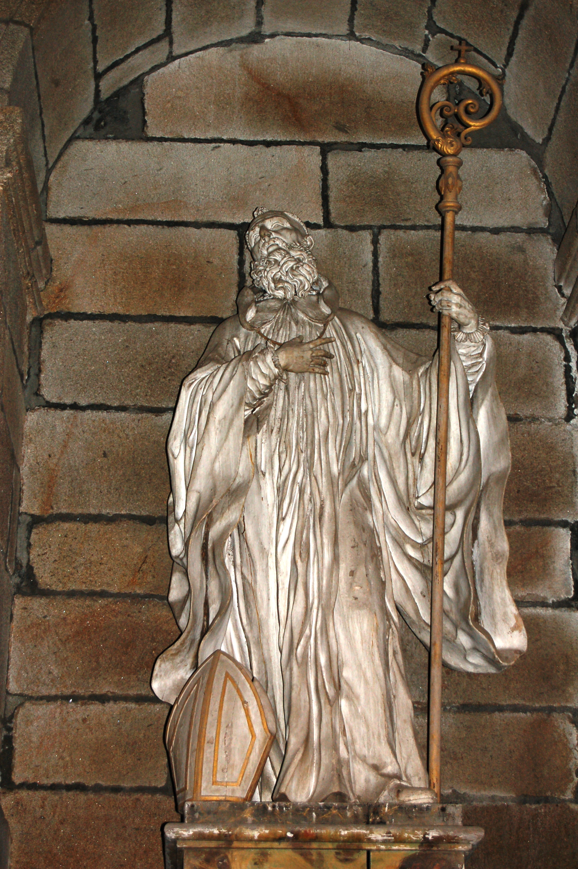 San Rosendo de Xosé Ferreiro na igrexa do mosteiro de San Martiño Pinario en Santiago de Compostela